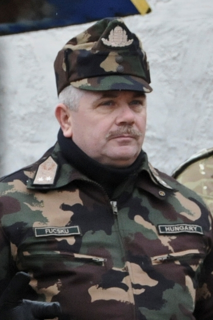 Major General Sándor Fucsku